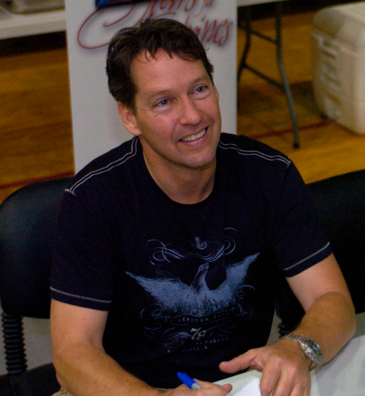 D.B. Sweeney takes the time to meet and greet servicemembers after showing his movie "Two Tickets to Paradise" at the East Liberty Field House, Camp Liberty, Iraq, on May 3. Sweeney said that he enjoyed sitting down and talking with servicemembers, and he was open to any questions that they might have.